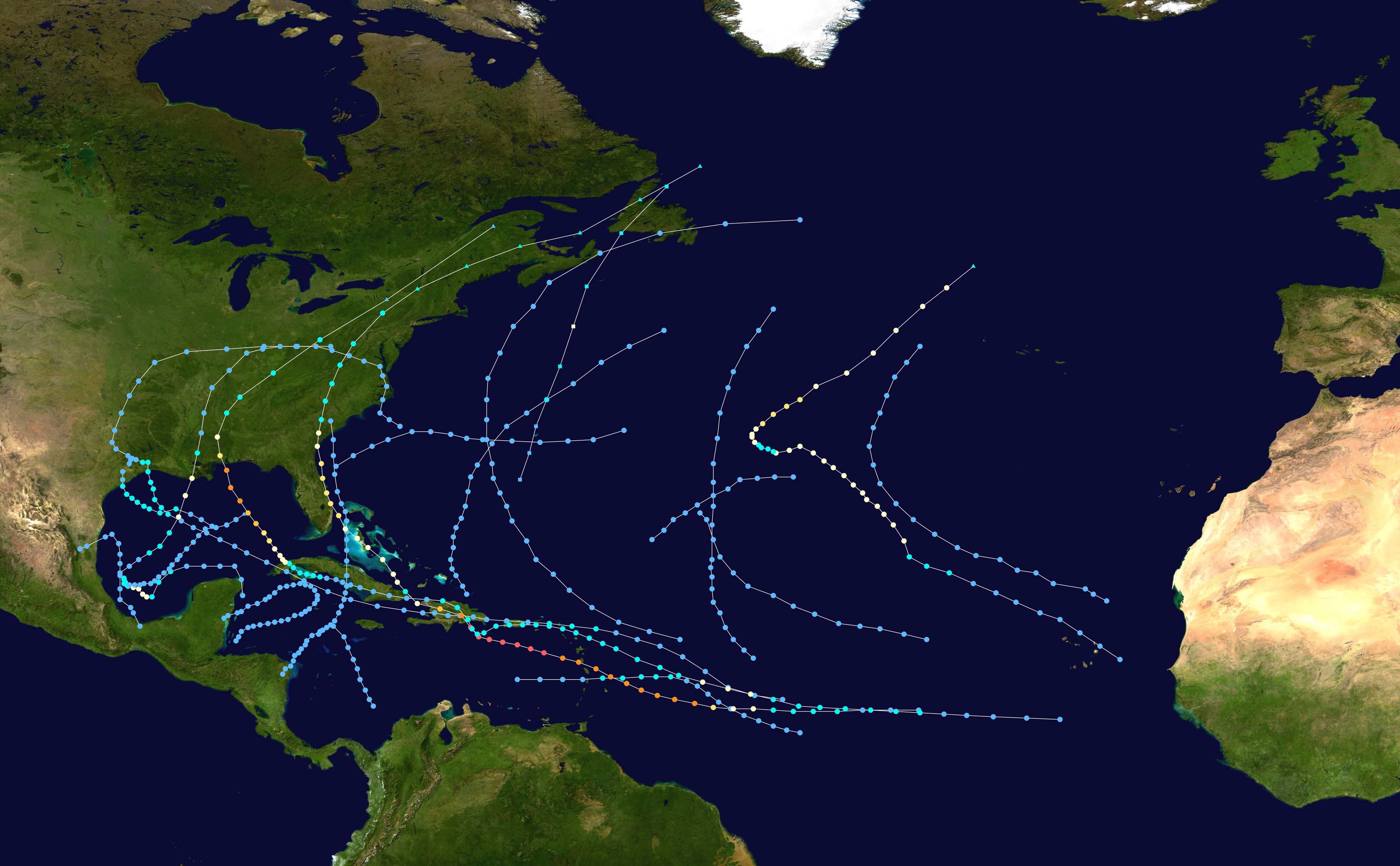 This map shows the tracks of all tropical cyclones in the 1979 Atlantic hurricane season. The points show the location of each storm at 6-hour intervals. The colour represents the storm's maximum sustained wind speeds as classified in the Saffir-Simpson Hurricane Scale (see below), and the shape of the data points represent the type of the storm. Saffir–Simpson scale Tropical depression≤38 mph≤62 km/h Category 3111–129 mph178–208 km/h Tropical storm39–73 mph63–118 km/h Category 4130–156 mph209–251 km/h Category 174–95 mph119–153 km/h Category 5≥157 mph≥252 km/h Category 296–110 mph154–177 km/h Unknown Storm type Tropical cyclone Subtropical cyclone Extratropical cyclone / Remnant low / Tropical disturbance / Monsoon depression